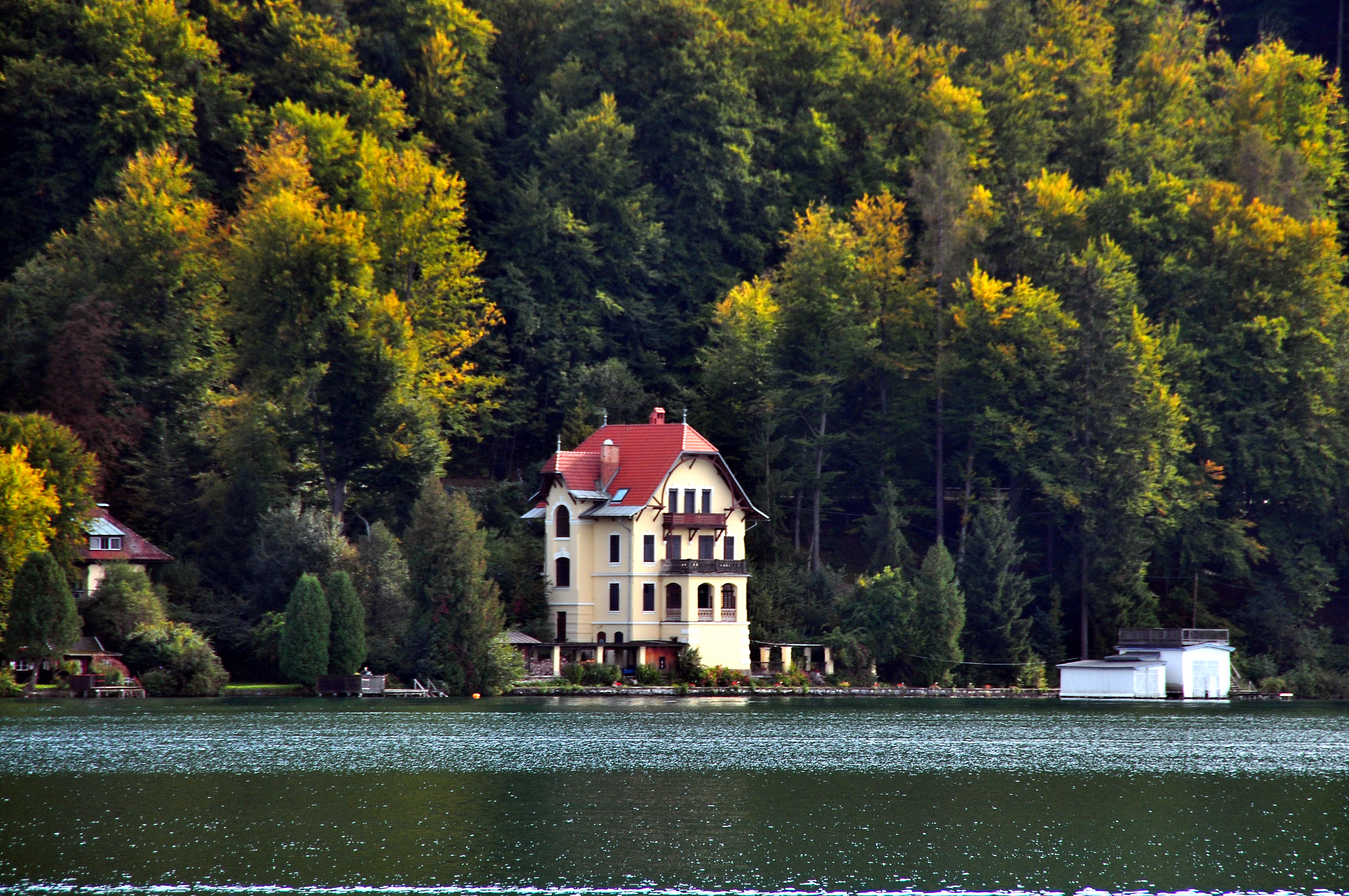 Villa Siegel (architectural design from 1900 by Friedrich Theuer) on Wörthersee-Süduferstrasse #23 in Sekirn, municipality Maria Wörth, district Klagenfurt Land, Carinthia, Austria, EU